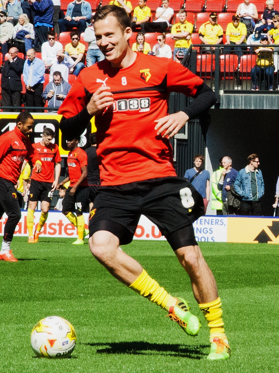 Dániel Tőzsér